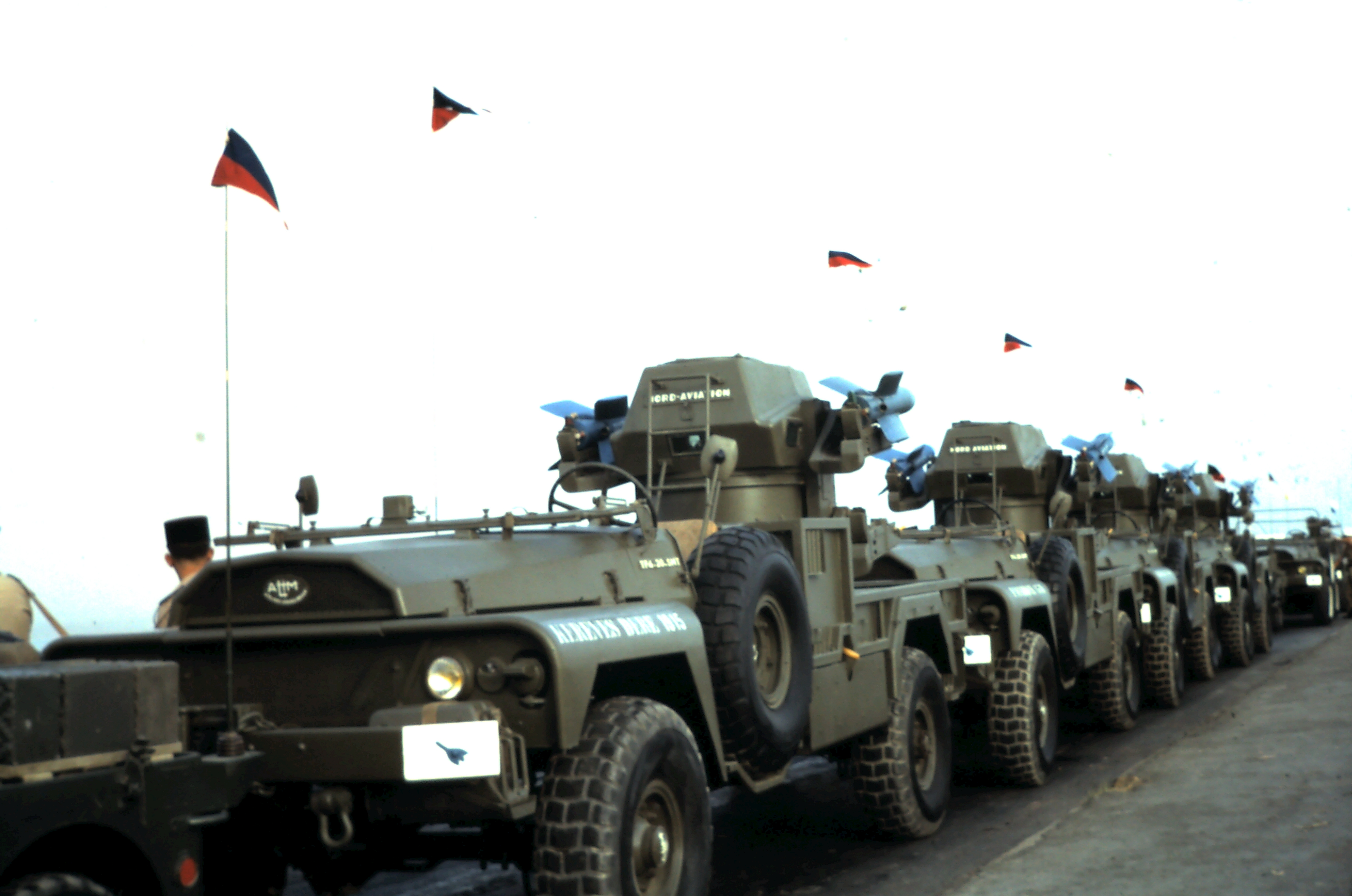 SS.11 VLRA platoon of the 61st Armoured Squadron of the Infanterie de Marine ready for the 14th of July parade, Djibouti 1971.